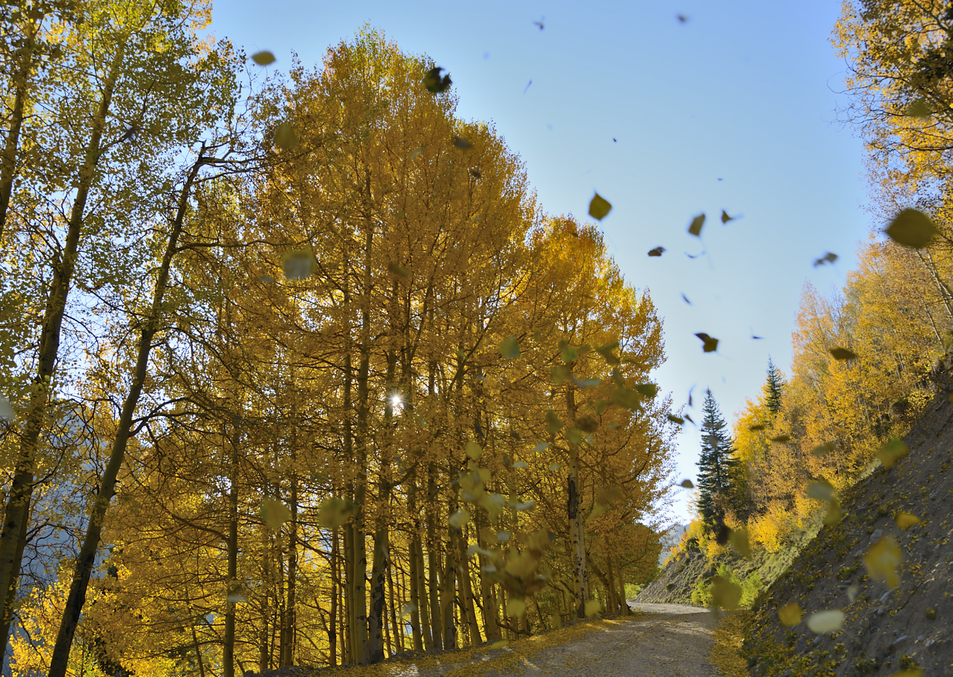 Near Ophir Pass, Colorado. Leaving Silverton today for home.